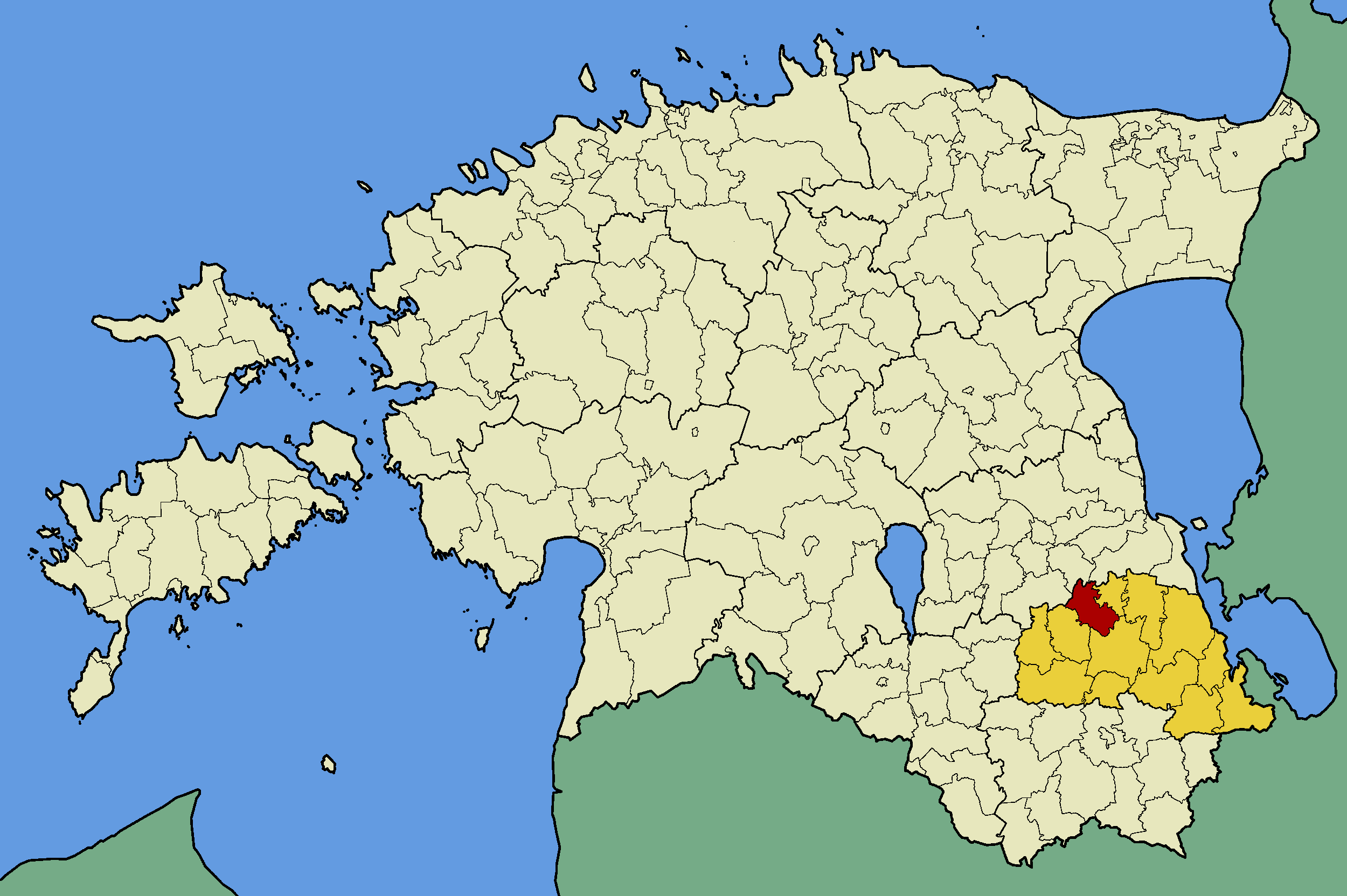 Map of Estonia with borders of municipalities (parishes). Põlva county and Vastse-Kuuste municipality emphasized.